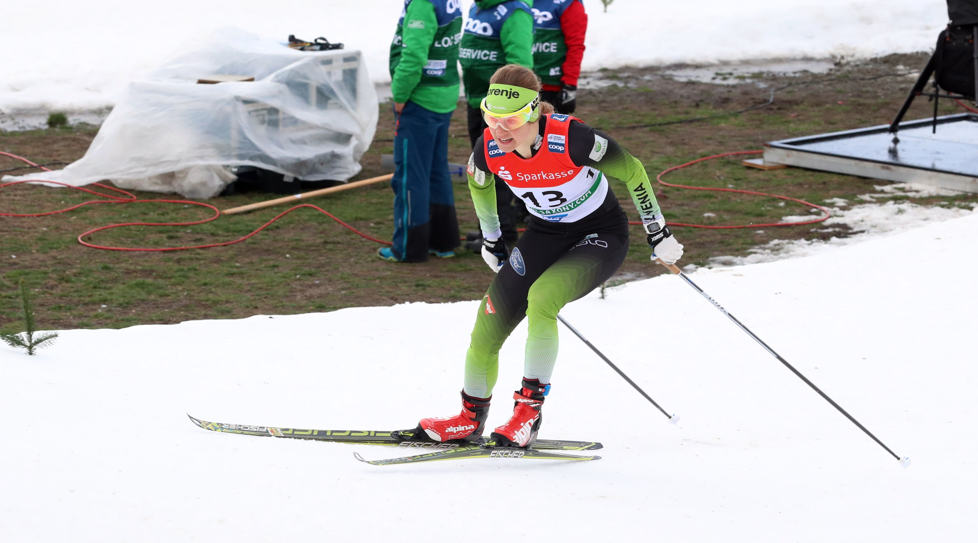 Women's Qualification at the FIS Cross-Country World Cup Dresden 2019 (1.6 km Free Sprint)